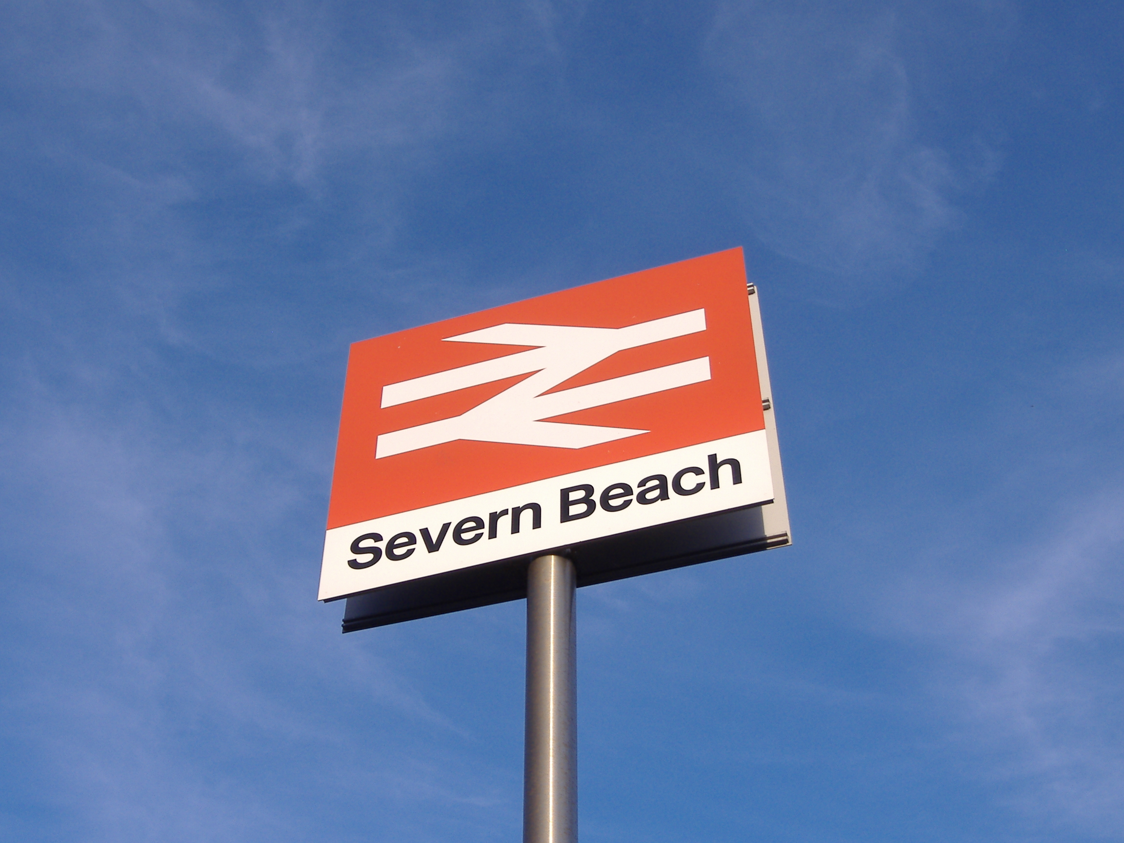 The sign outside Severn Beach railway station.